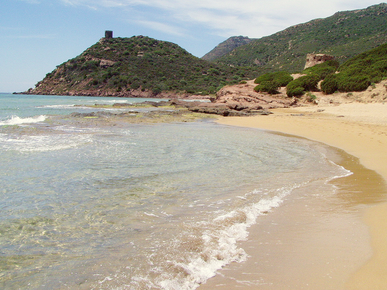 porto ferro sassari - sardinia